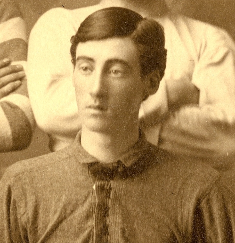 Photograph of John Duffy